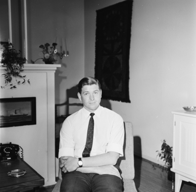 Harald Tusberg (born 1935), Norwegian television personality. Photo by Rigmor Dahl Delphin in the collections of Oslo Museum via DigitaltMuseum.